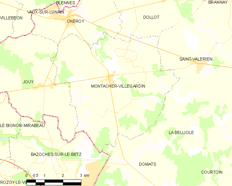 Map of French municipality Montacher-Villegardin